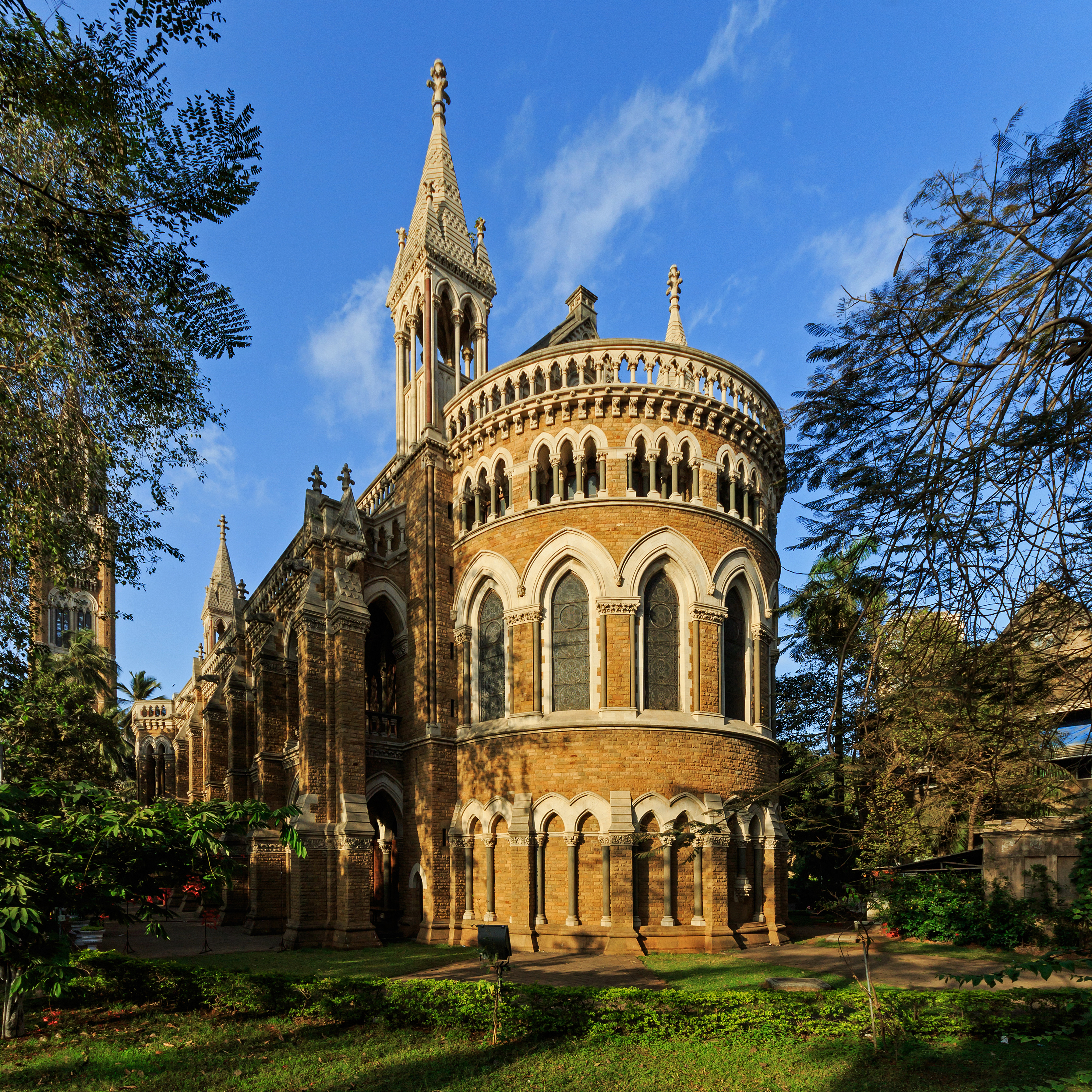 Historical building of the University in Mumbai, India